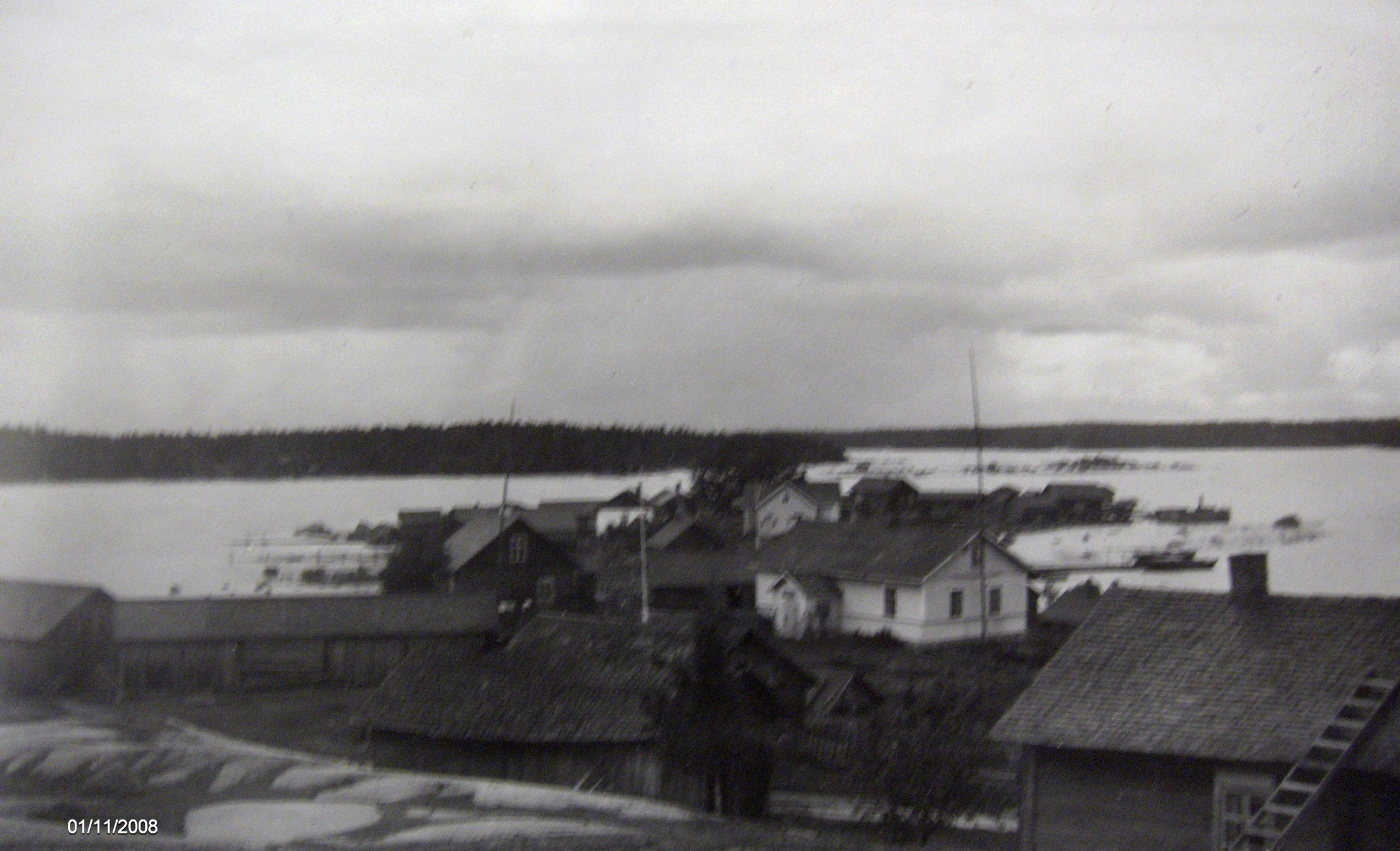 Former Finnish archipelago village Paatio about in 1940